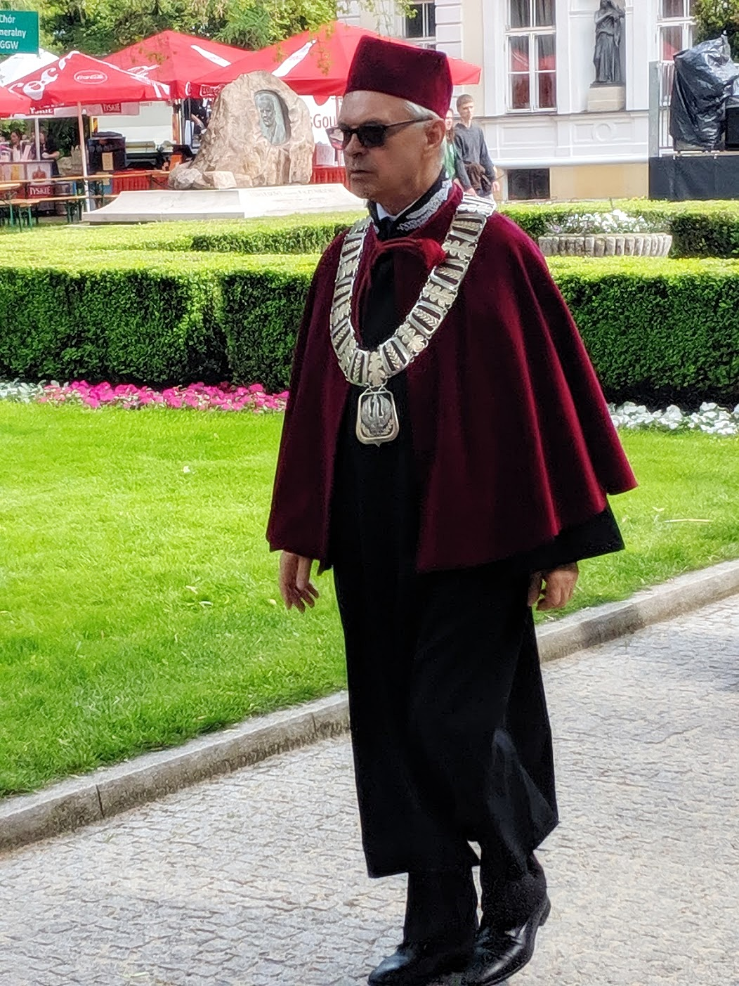 Kazimierz Banasik, Vice-Rector of Warsaw University of Life Sciences, full professor of hydrology